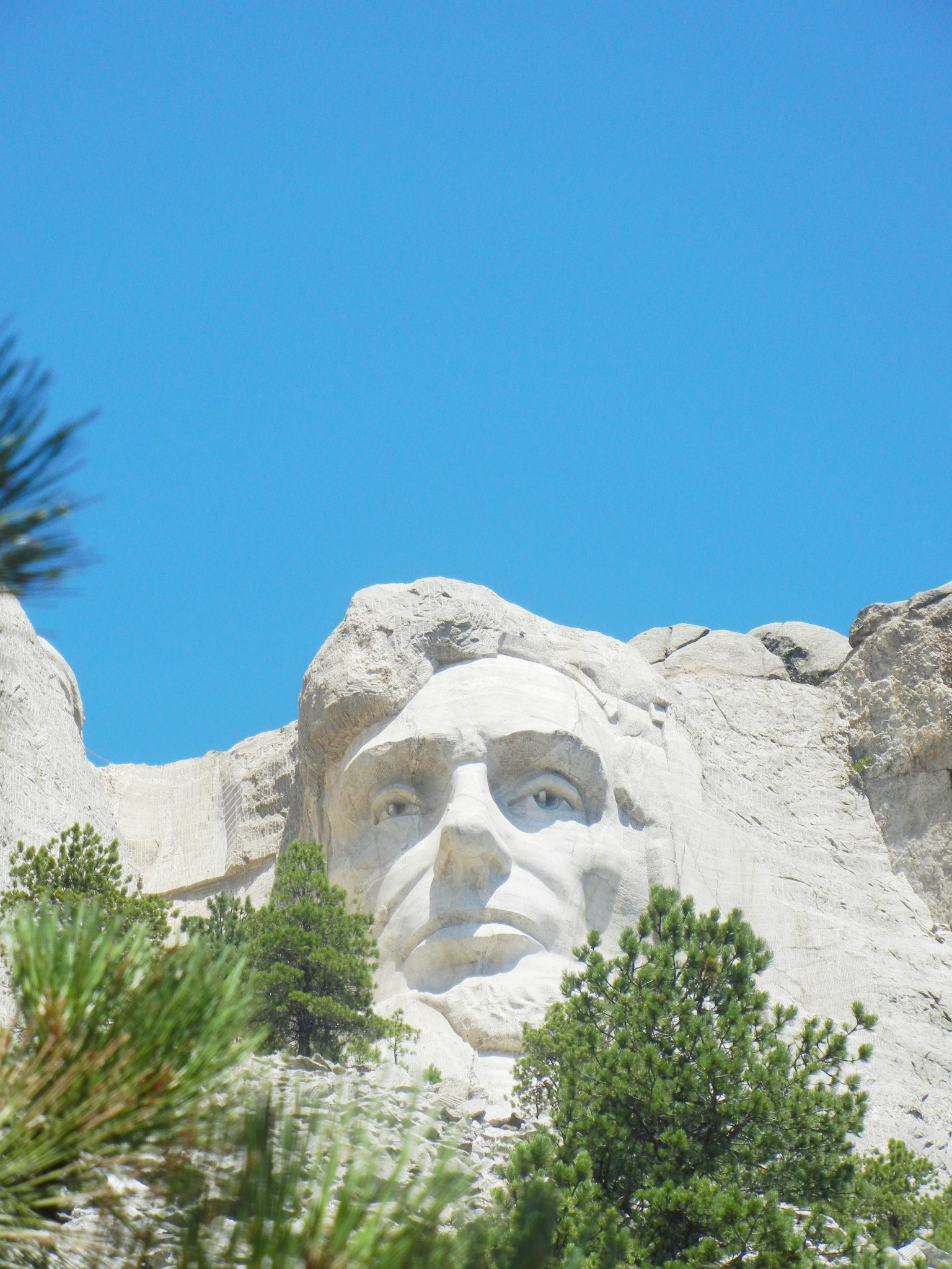 Great Person